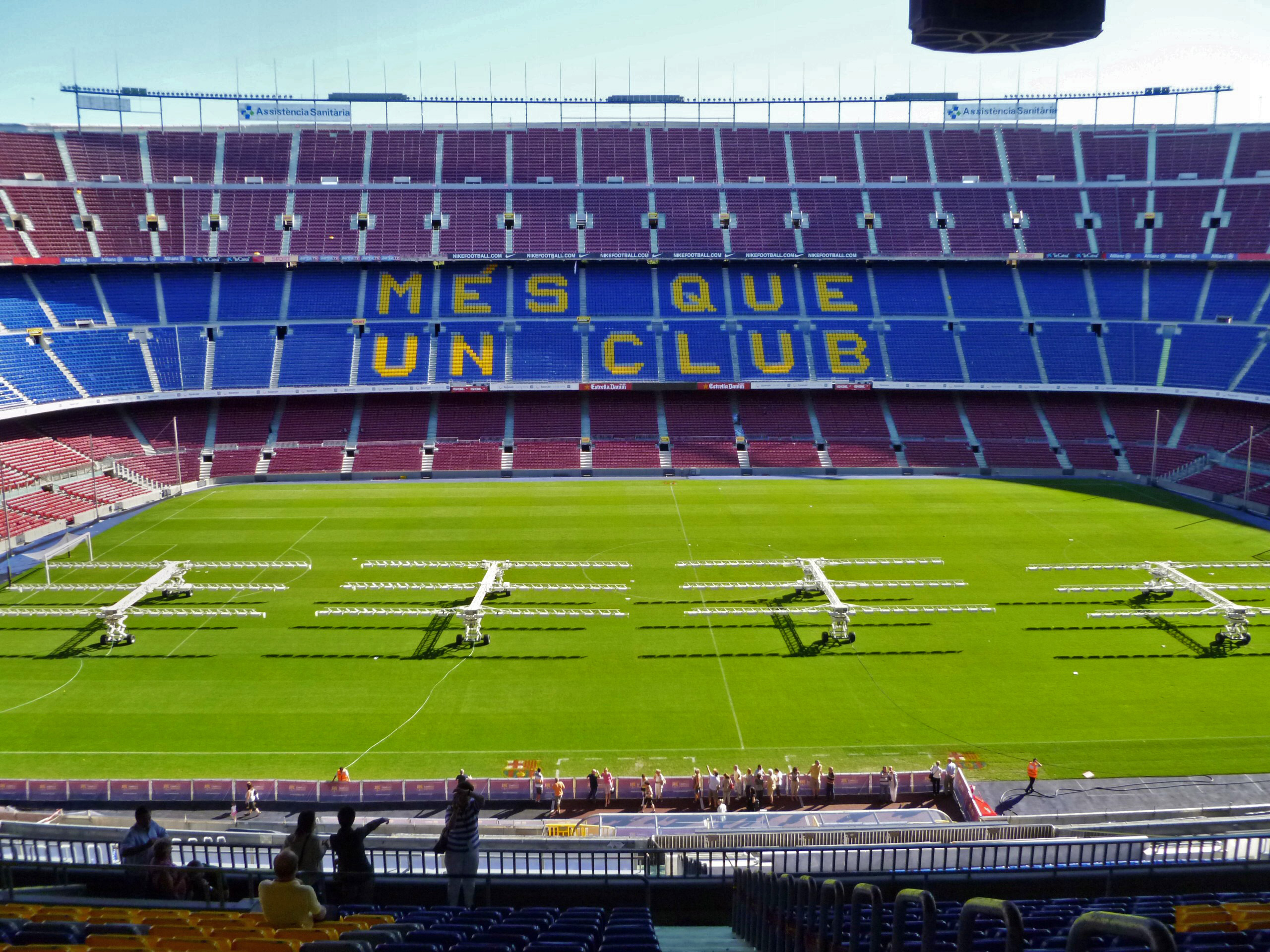 Camp Nou, Stadium of F.C. Barcelona, Barcelona, Spain